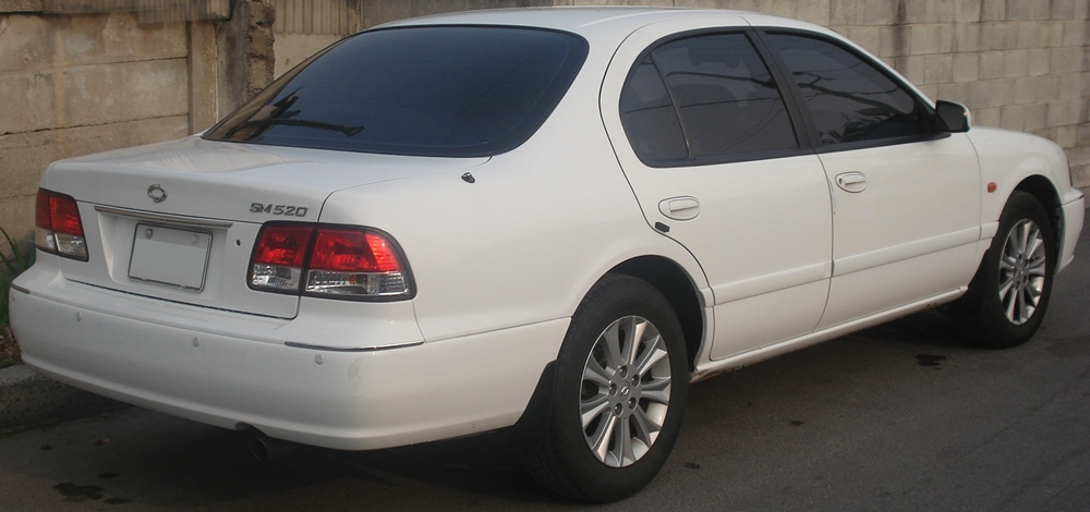 Renault Samsung SM5